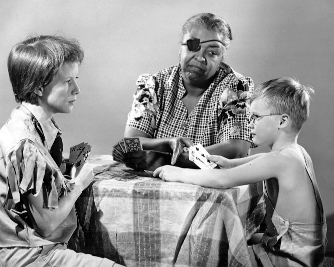 Photo from the Broadway play The Member of the Wedding. Pictured are Julie Harris (Frankie), Ethel Waters (Berenice) and Brandon deWilde (John Henry).